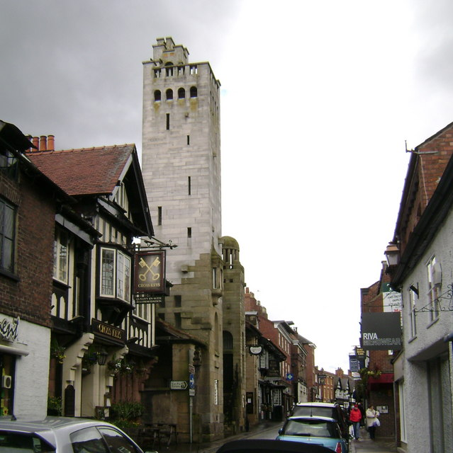 King Street, Knutsford A classic English town street, with the exotic addition of the Gaskell Memorial Tower designed by Richard Harding Watt. It commemorates the life and work of the 19th century novelist Elizabeth Gaskell. Knutsford was the inspiration for 'Cranford'.